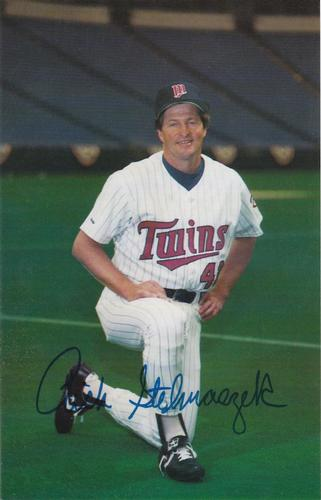 Professional baseball coach Rick Stelmaszek